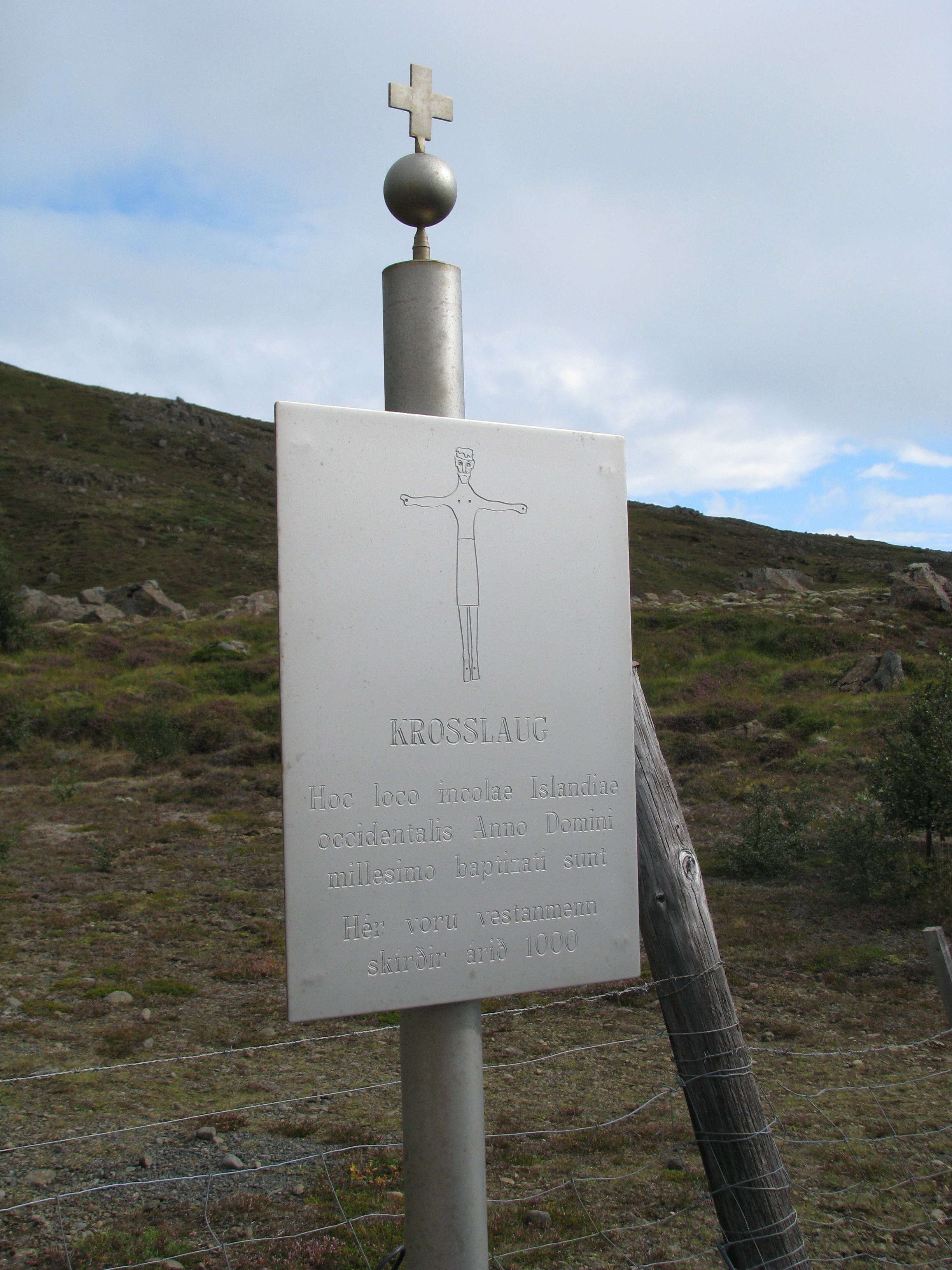 Krosslaug, a hot spring in Iceland.